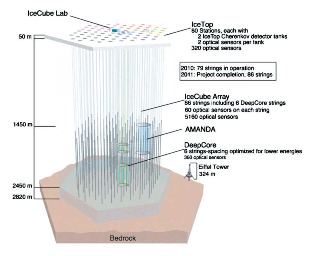 Image of the ice cube diagram.